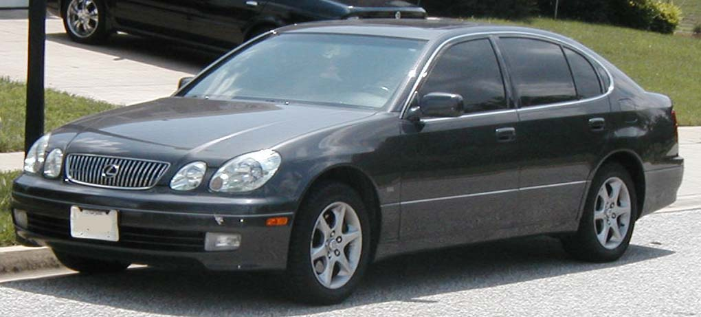 1997-2005 Lexus GS photographed in USA.